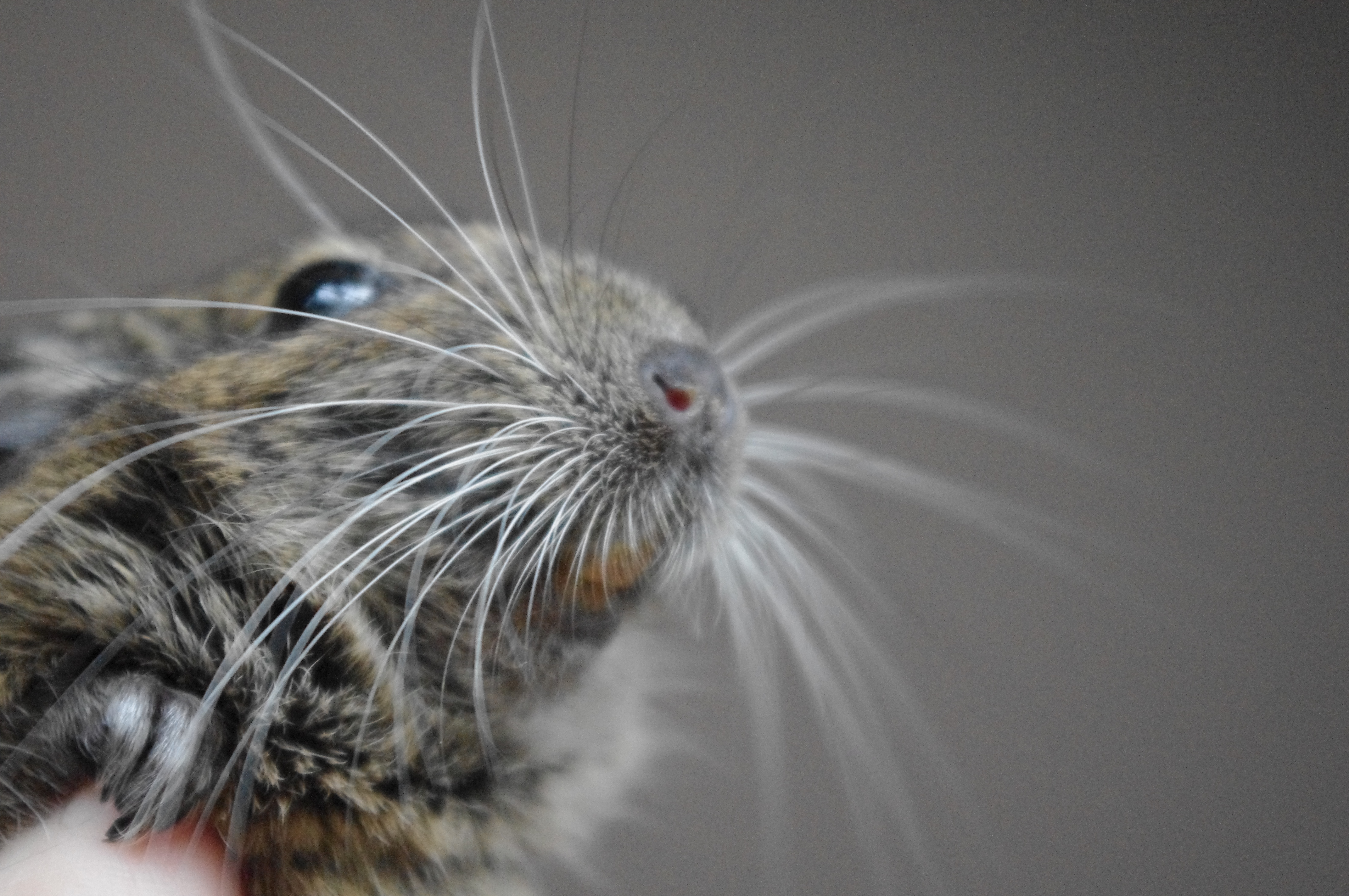 Whiskers of Octodon degus